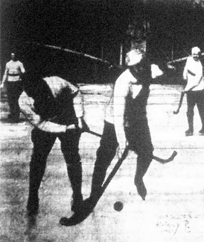 ice hockey match DEHG Prag (Deutsche Eishockey Gesellschaft Prag) versus Budapester Eislaufverein in 1914